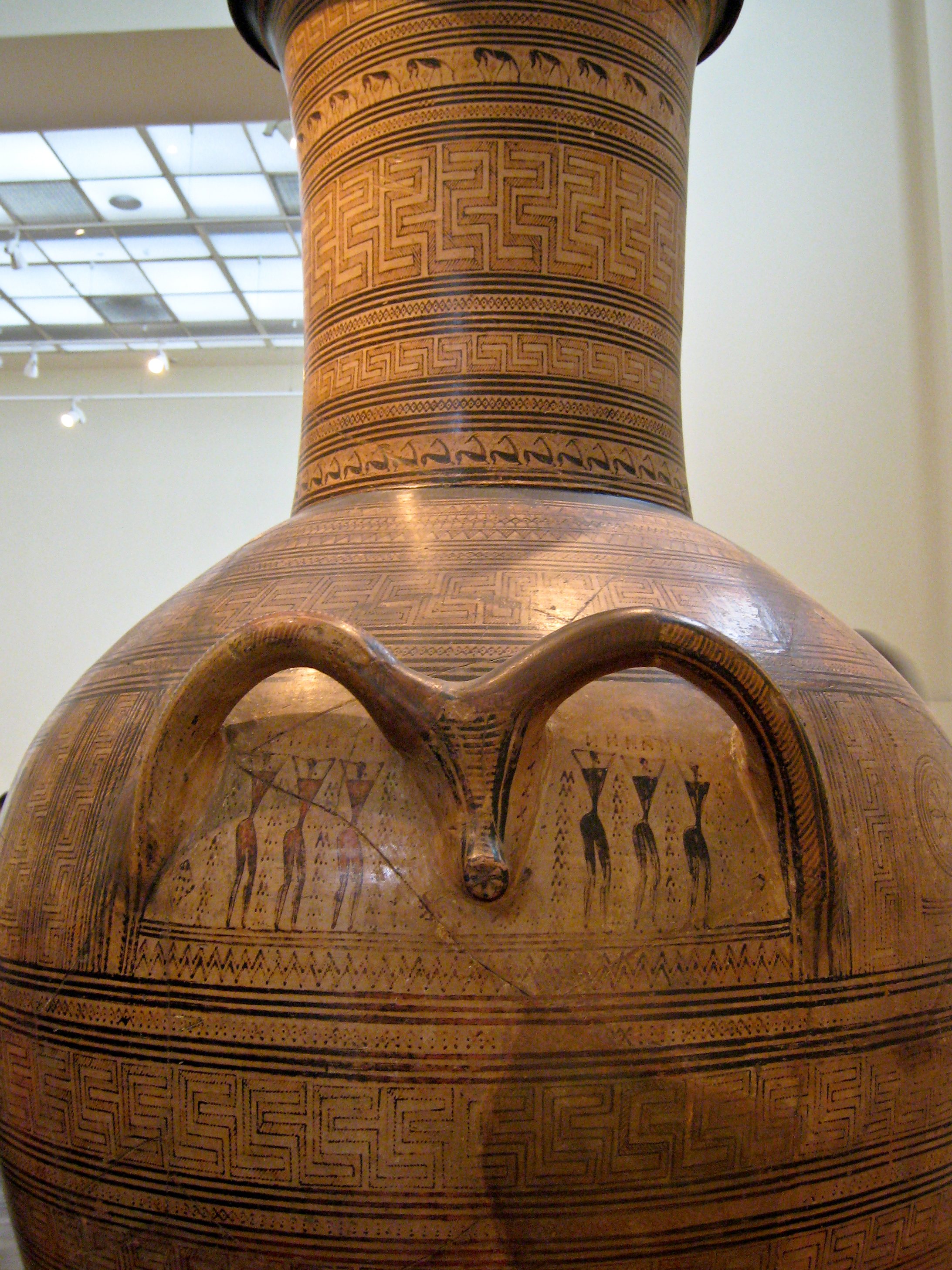 Athenian funerary amphora, Late geometric I. Detail. Mourners below the handle, geometric patterns and animal friezes on the neck.